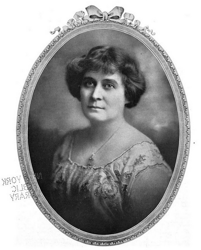 Mrs. G. W. Denney (George W. Denney); Vice-President of the Conservation Exposition, Knoxville, Tennessee; President of the Tennessee Federation of Women's Clubs